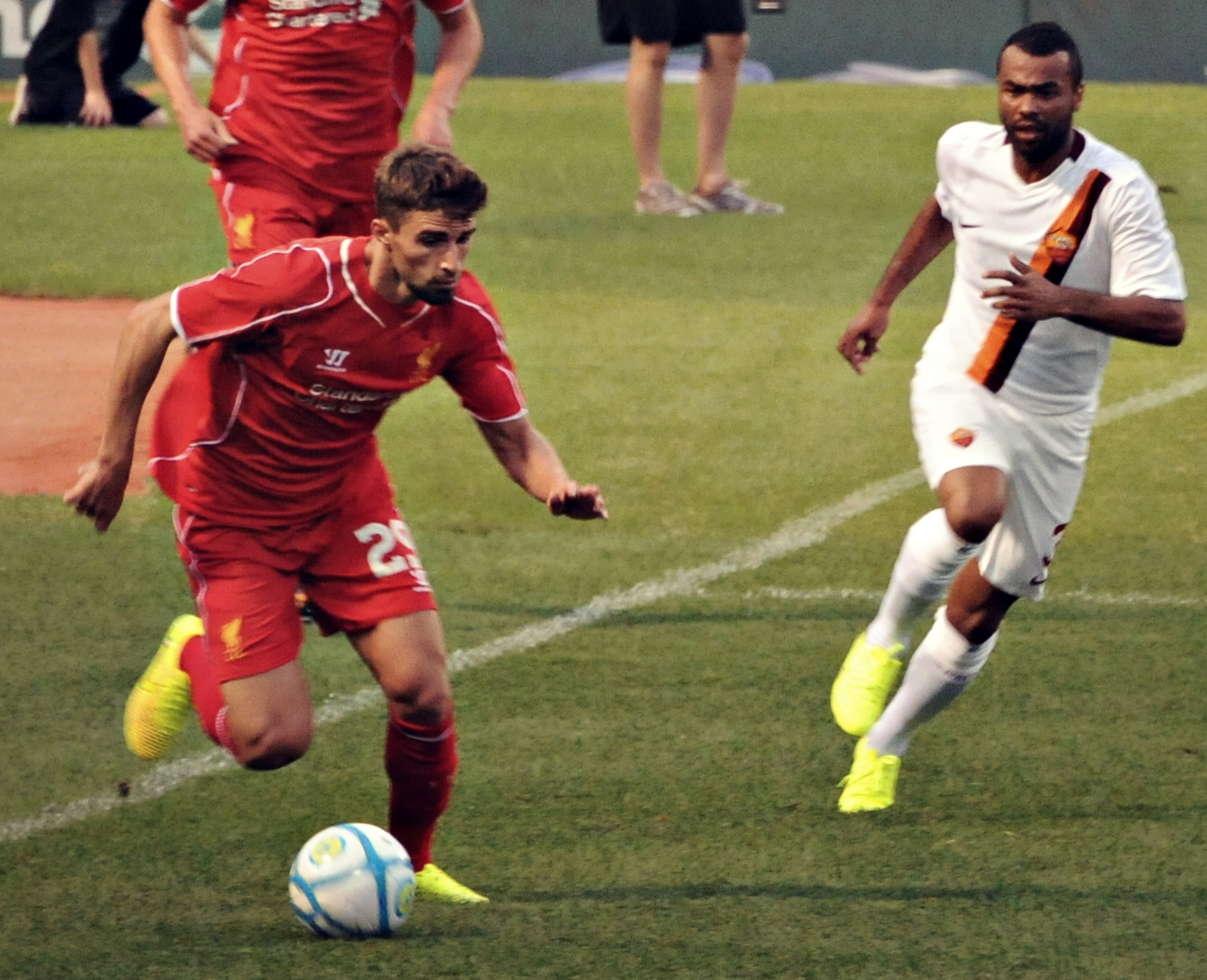 Players of Liverpool FC (Englishman Martin Kelly and Italian Fabio Borini) and AS Roma (Englishman Ashley Cole) during the game at Fenway Park, Boston.